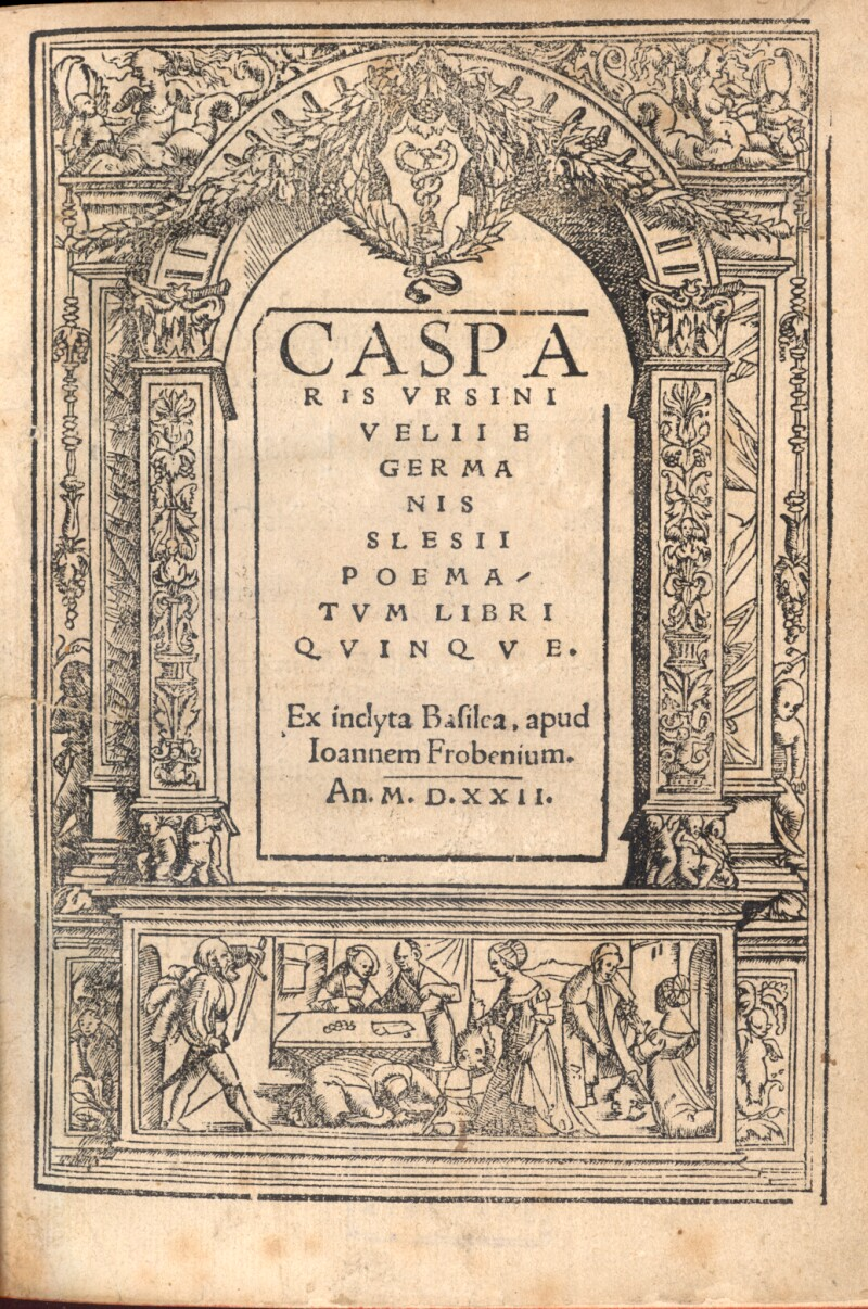 Title page of Poematum libri quinque by Kaspar Ursinus Velius.